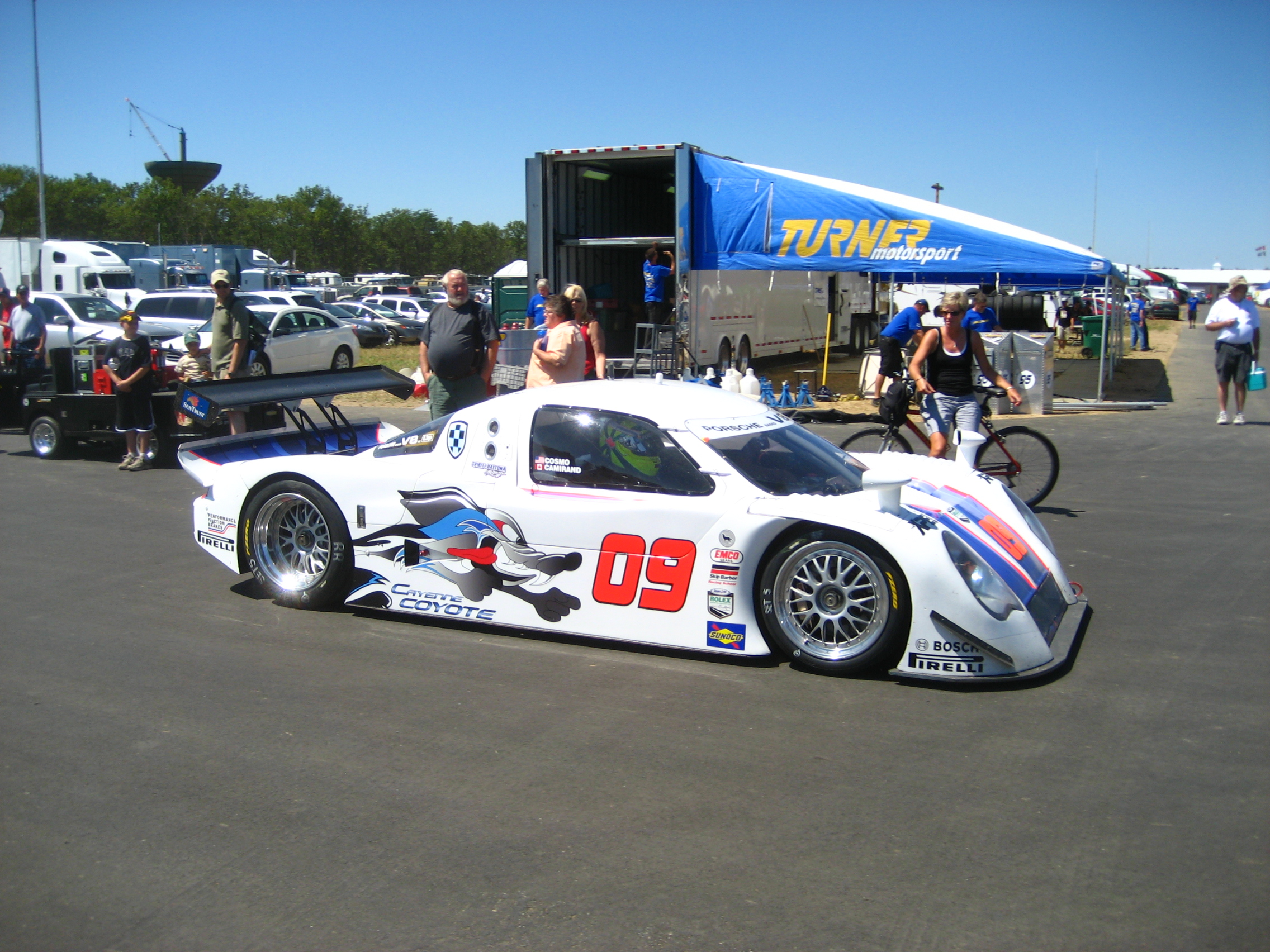 Spirit of Daytona Racing's Coyote-Porsche at the 2008 Supercar Life 250 at the New Jersey Motorsports Park.